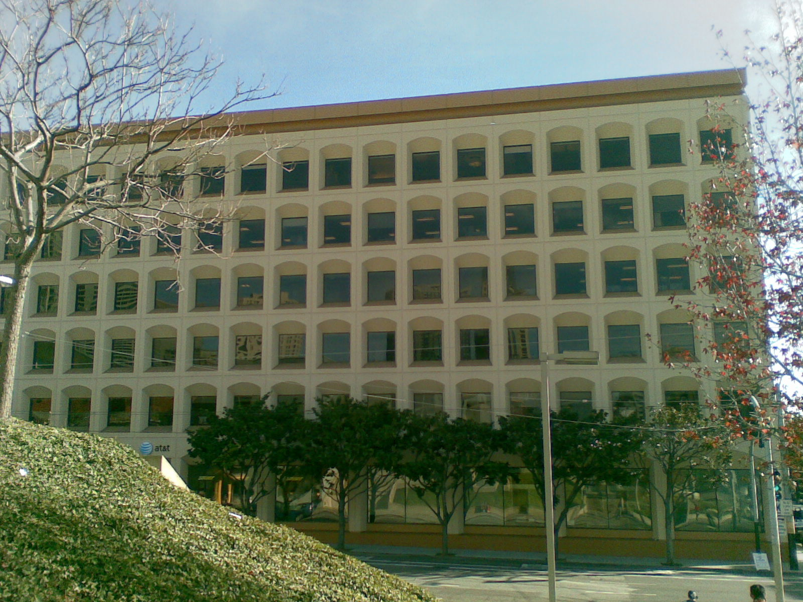 Twitter HQ in San Francisco - Olaf Koens